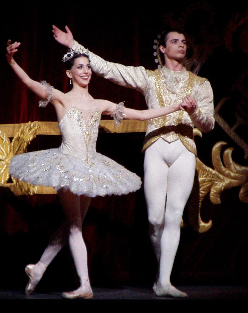 Alexandra Ansanelli as Princess Aurora and David Makhateli as Prince Florimund in a Royal Ballet production of Sleeping Beauty on 29th April 2008.